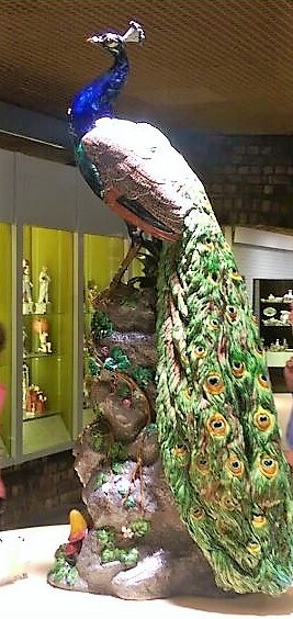 Minton lead-glaze majolica Peacock by Paul Comolera, circa 1870, coloured lead glazes. Potteries Museum, Stoke-on-Trent, UK